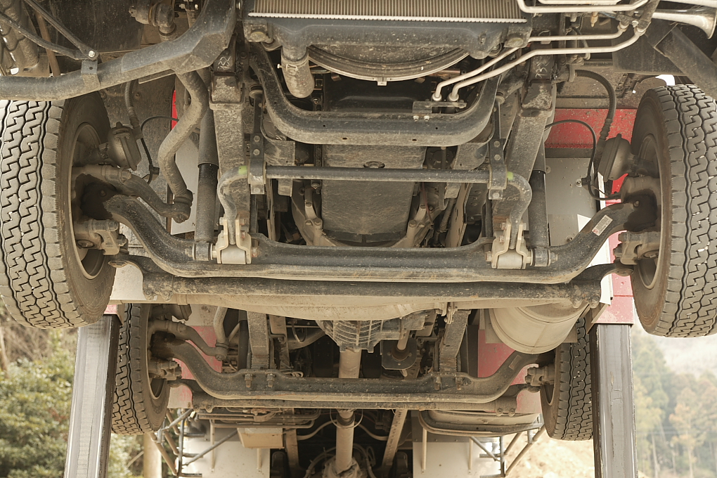 Beam axles of Isuzu GIGA.